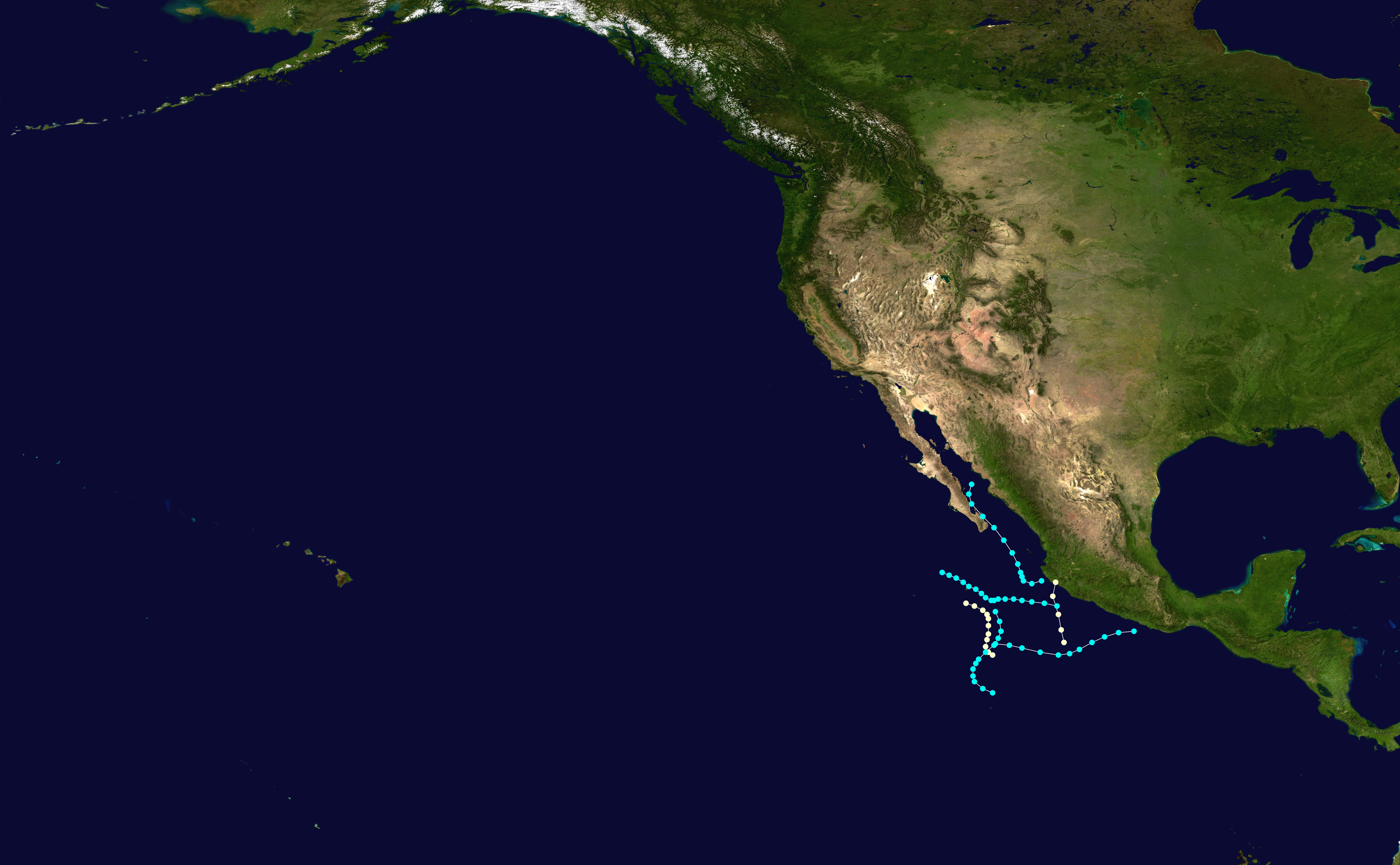 This map shows the tracks of all tropical cyclones in the 1955 Pacific hurricane season. The points show the location of each storm at 6-hour intervals. The colour represents the storm's maximum sustained wind speeds as classified in the Saffir-Simpson Hurricane Scale (see below), and the shape of the data points represent the type of the storm. Saffir–Simpson hurricane wind scale Tropical depression≤38 mph≤62 km/h Category 3111–129 mph178–208 km/h Tropical storm39–73 mph63–118 km/h Category 4130–156 mph209–251 km/h Category 174–95 mph119–153 km/h Category 5≥157 mph≥252 km/h Category 296–110 mph154–177 km/h Unknown Storm typeTropical cycloneSubtropical cycloneExtratropical cyclone / Remnant low / Tropical disturbance